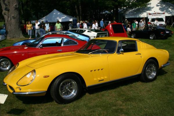 1967 Ferrari 275 GTB/4 at 2005 Meadow Brook Concours. It may have "MO 67275" and "PROVA MO 275" which is s/n 10409.[1]